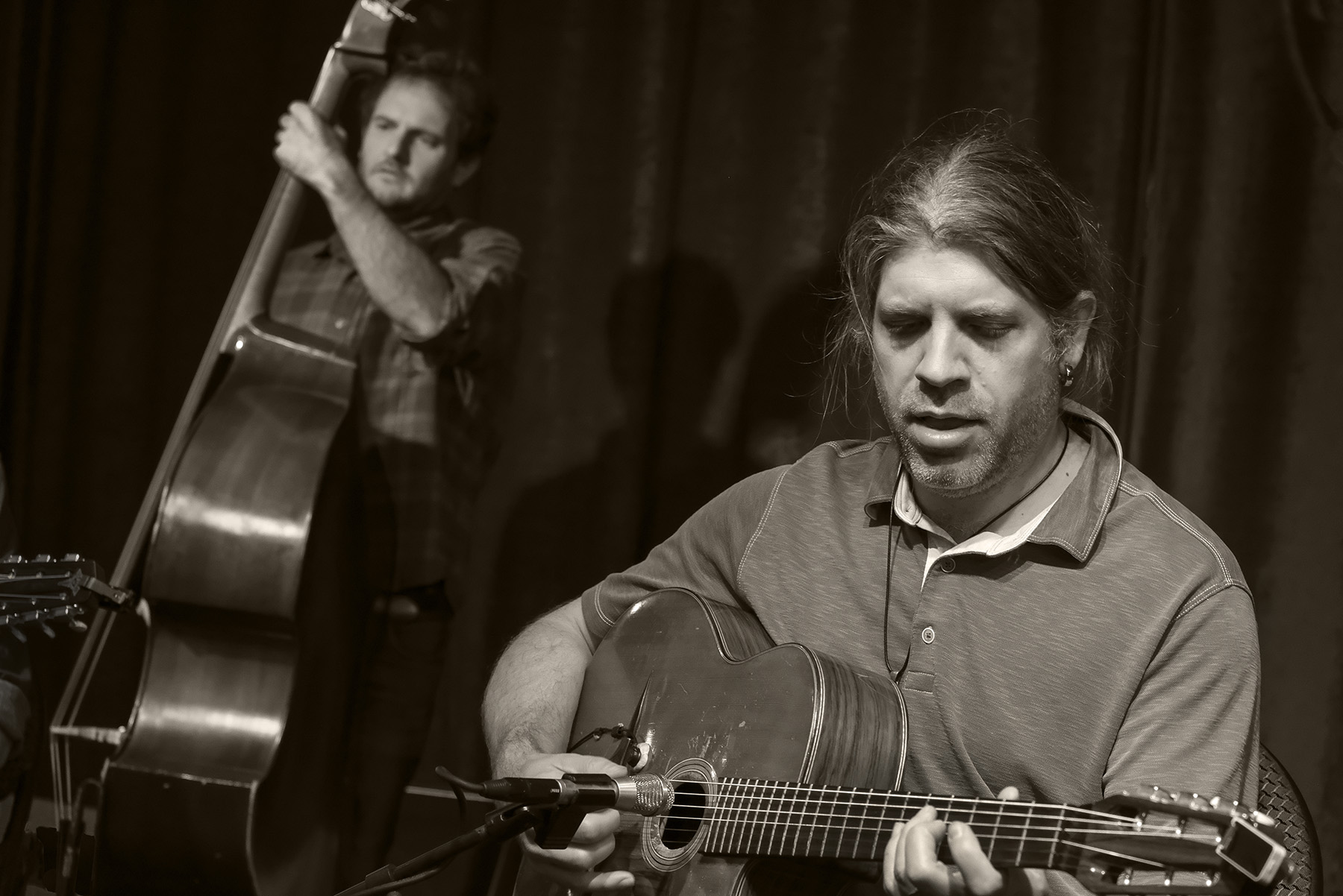 Stéphane Wrembel at Loving Cup (Rochester NY) Photo Bruno Chalifour, 2017.